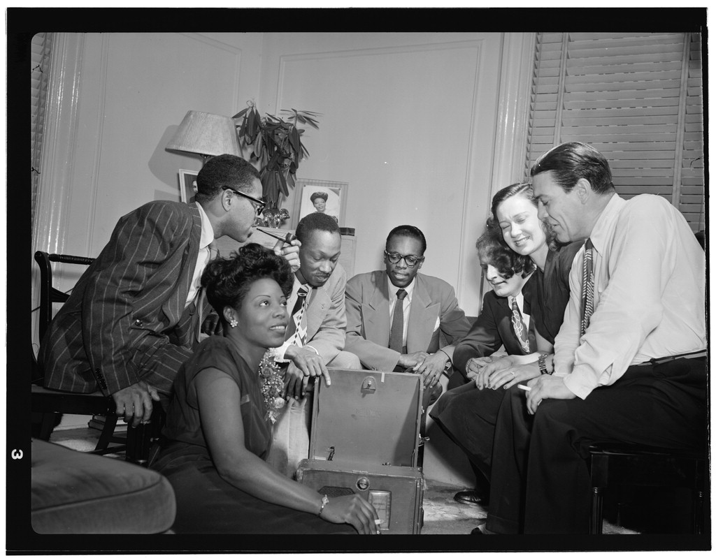 Dizzy Gillespie, Mary Lou Williams, Tadd Dameron, Hank Jones, Milt Orent, Dixie Bailey, and Jack Teagarden, Mary Lou Williams' apartment, New York, N.Y.